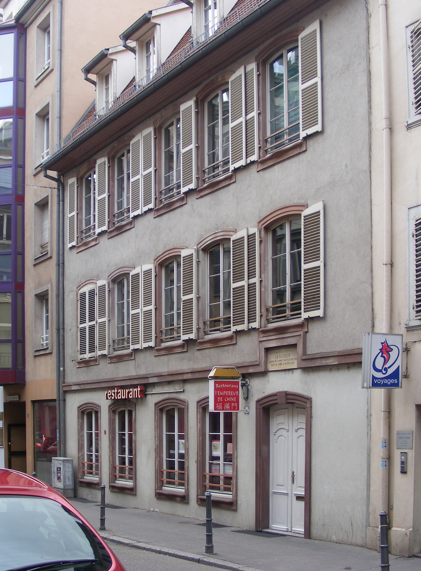 Birth house of General Jean-Baptiste Kléber in Strasbourg, 18 Rue Fossé des Tanneurs